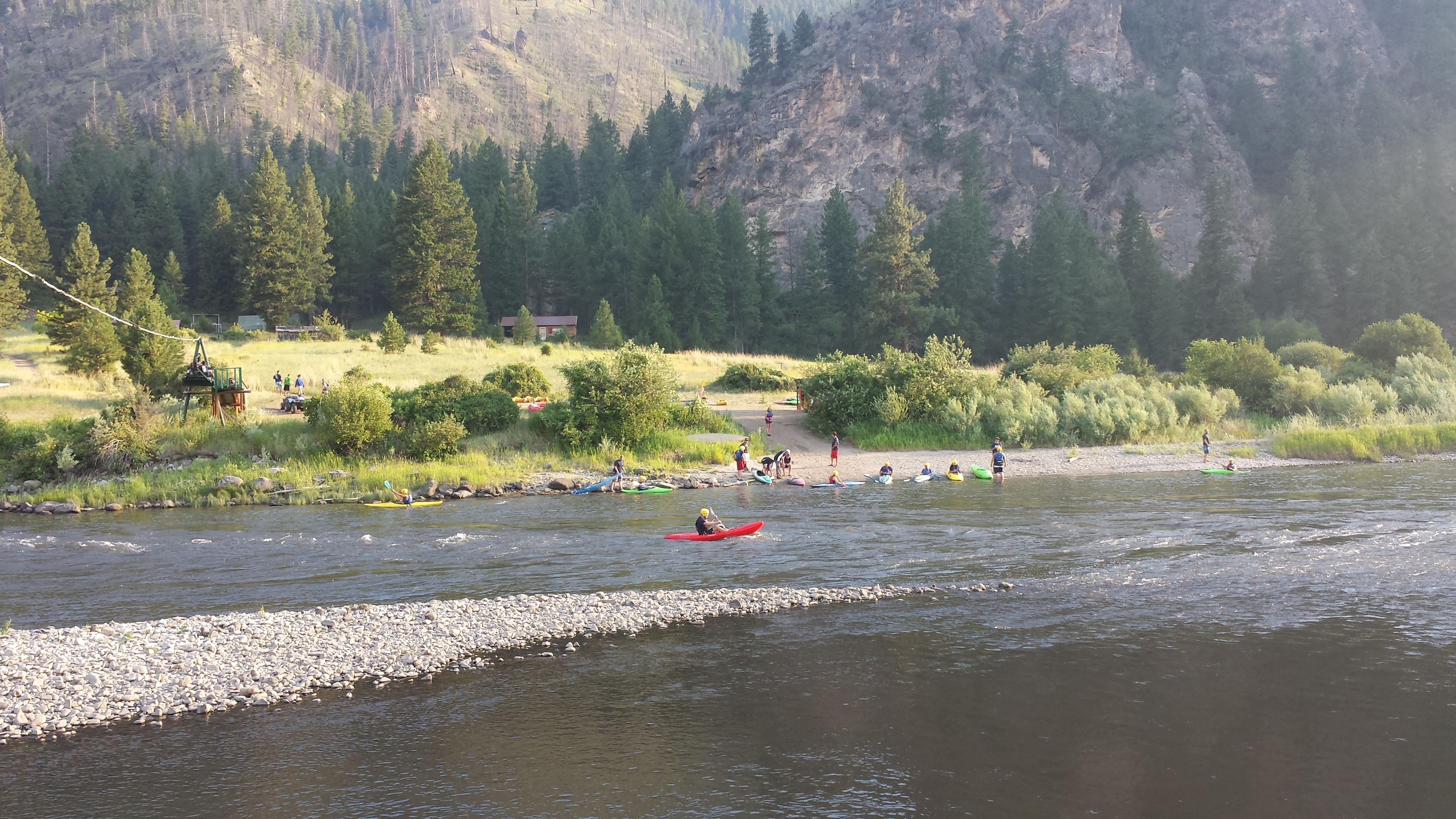 A view of Salmon River High Adventure Base looking across the river.